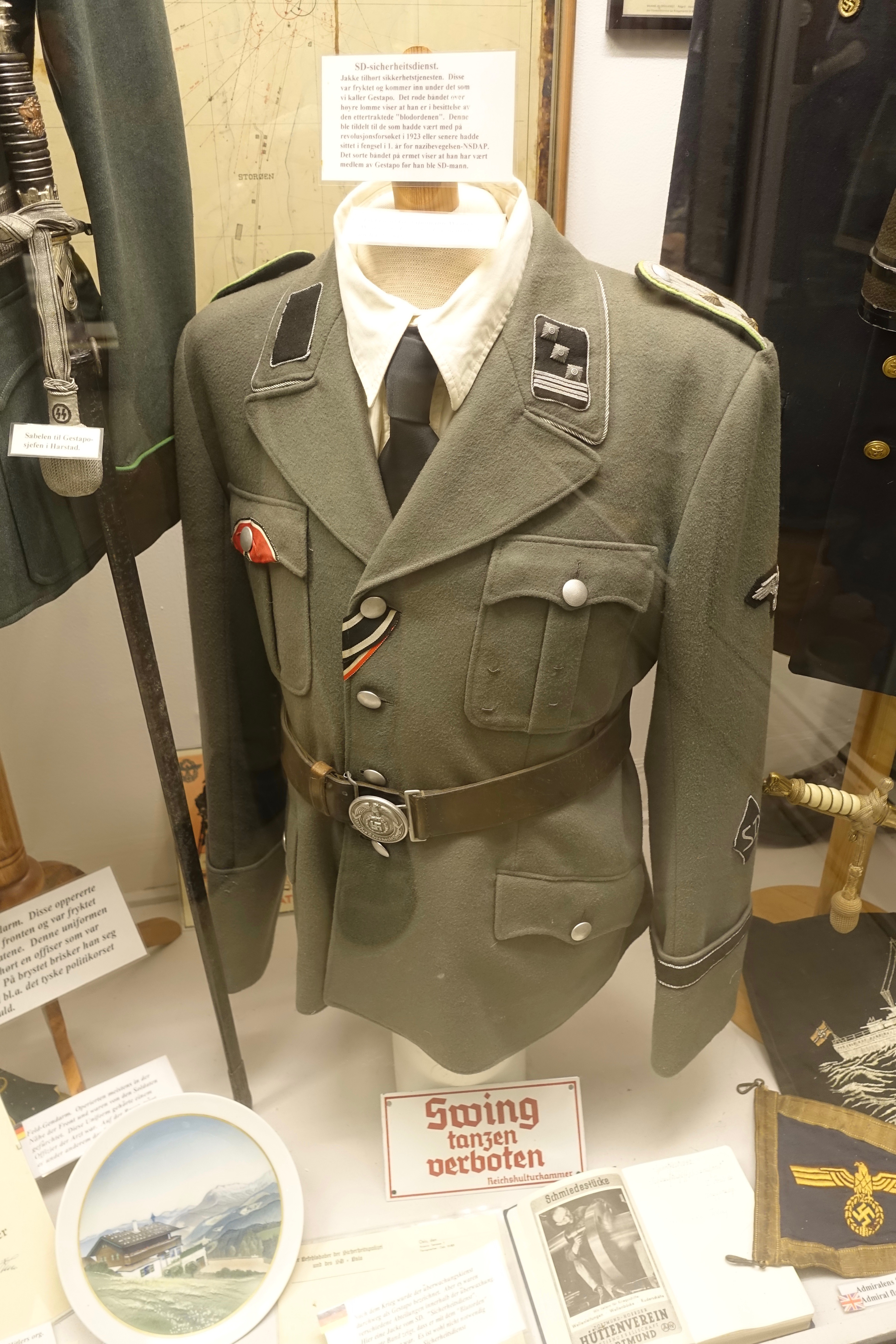 WW2 Norway. Uniform tunic of the SS' Sicherheitsdienst (SD). This SS uniform belonged to Ernst Josef Albert Weiner (1913 – 1945), head of the intelligence department Sipo IV N in the Sicherheitspolizei in Oslo. Rank insignia of a "SS-Hauptsturmführer" on collar patch/tab and shoulder straps. Ribbons (Ordensband) of the Iron Cross and the Eastern Front Medal (Medaille Winterschlacht im Osten 1941/42, Ostmedaille) in button hole Blood Order (Blutorden) ribbon on right side pocket SS style German national imperial egle (SS Hoheitszeichen, Ärmeladler), SD diamond (Ärmelraute), and cuff title band on left sleeve SS belt buckle Thread loops on left side pocket SS sword Kriegsmarine car pennant Fake "Swingtanzen verboten" sign Decorated memorabilia wall plate (Porzellan Wandteller "Haus Wachenfeld" (Obersalzberg) Rosenthal Bavaria 1933) Etc. Photo taken on May 8, 2019 at the Lofoten War Memorial Museum (Lofoten Krigsminnemuseum) in Svolvær, Norway. The museum exhibits uniforms, militaria, memorabilia, smaller items, etc. related to World War II, the German occupation of Norway 1940 – 1945, and the Third Reich period.